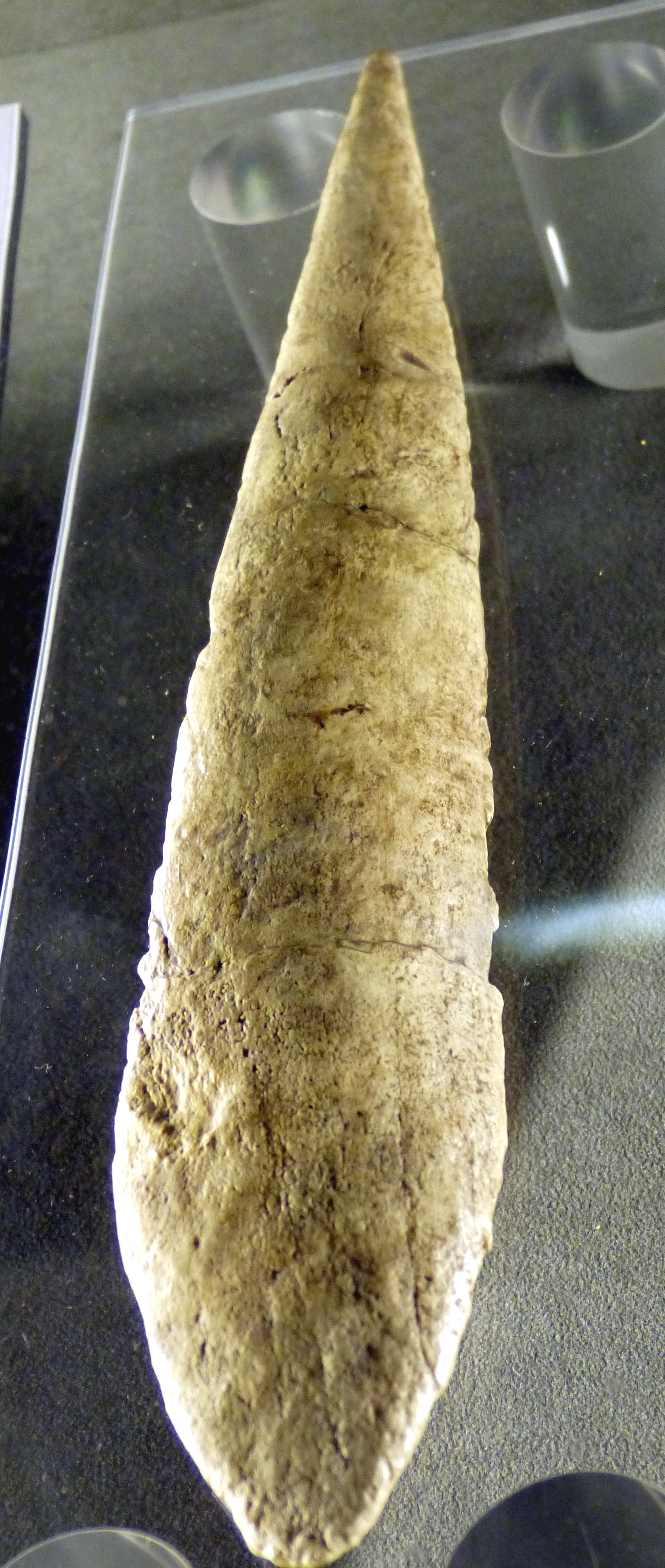 Natural History Museum, Vienna (Austria). Aurignacian bone spearhead (Lautscher-style spearhead), from Mladeč (Czech Republic).